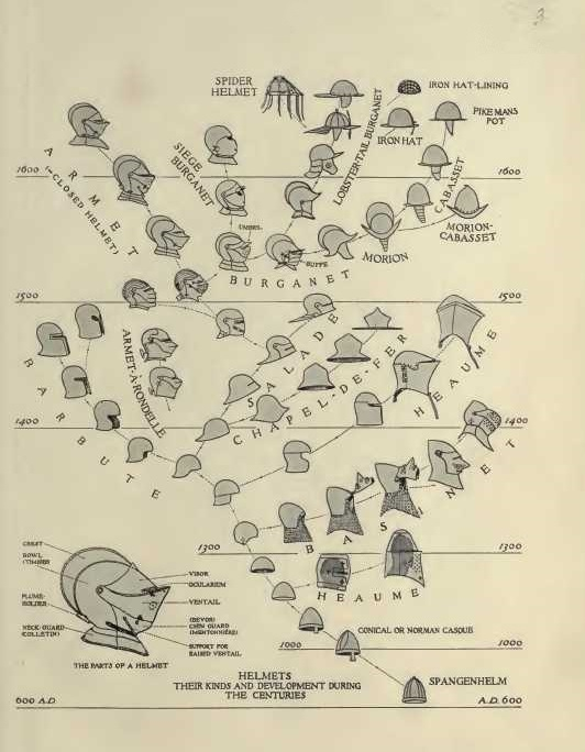 Bashford Dean compared the evolution of armour and weapons with biological evolution.